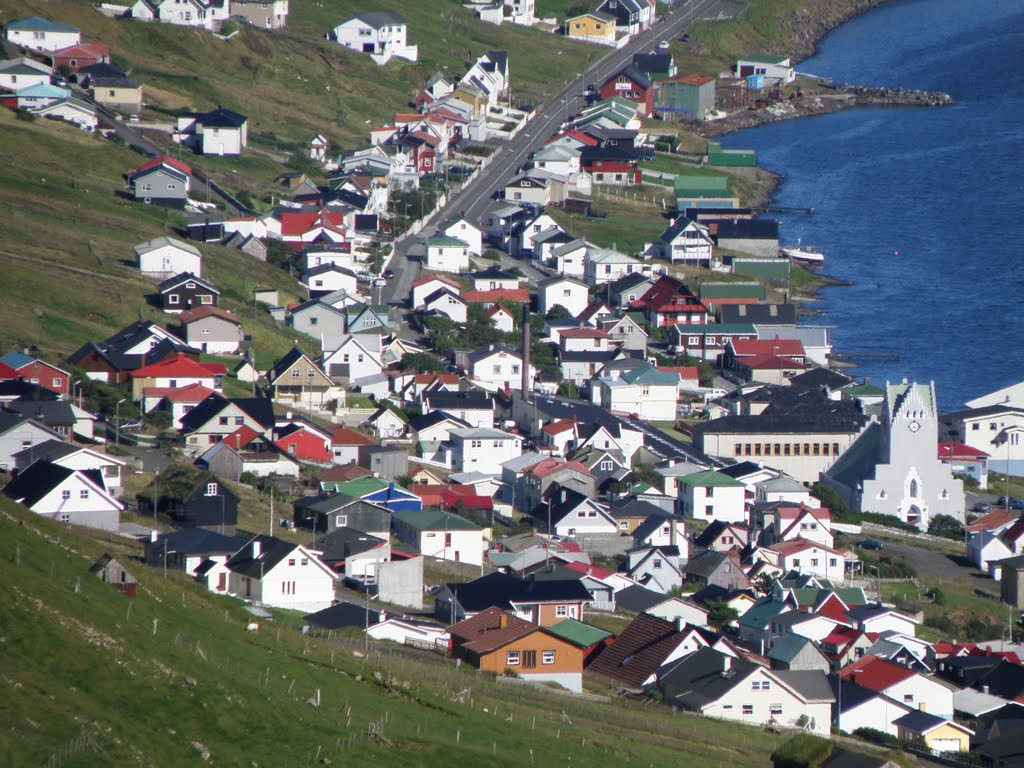 Vágur is a village in Suðuroy, Faroe Islands. The population is around 1350.